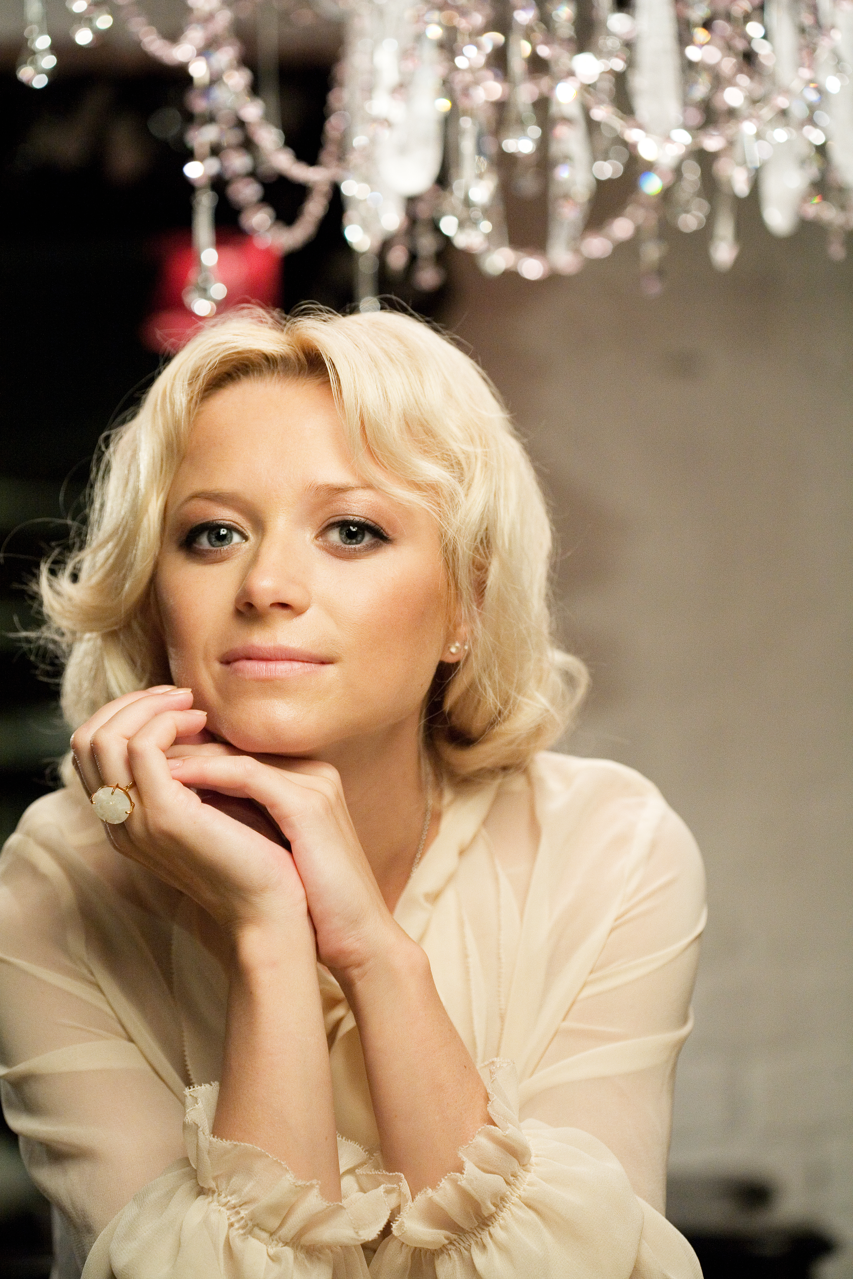 Elena Bereznaya